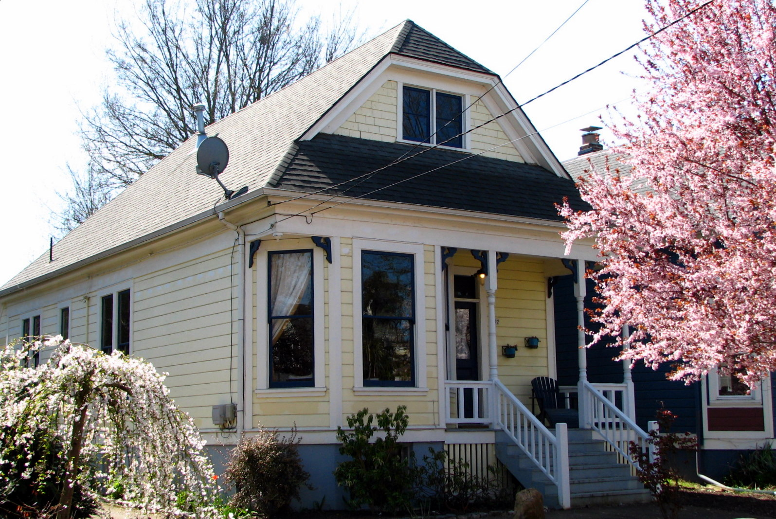 The historic Frederick Armbruster Cottage (built 1898), located at 502 Northeast Tillamook Street in Portland, Oregon, United States, is listed on the US National Register of Historic Places.